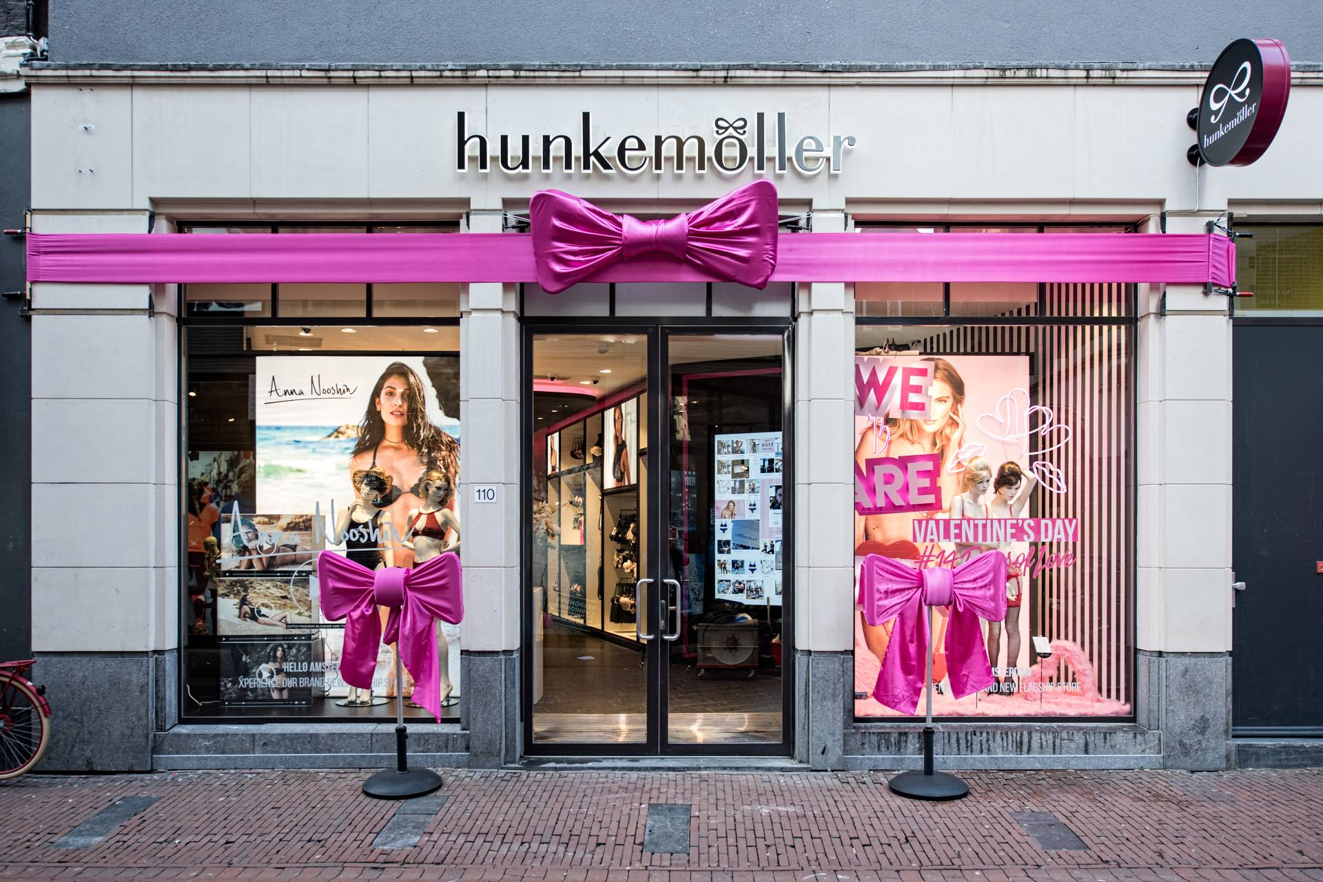 Store opening in Amsterdam (2017)